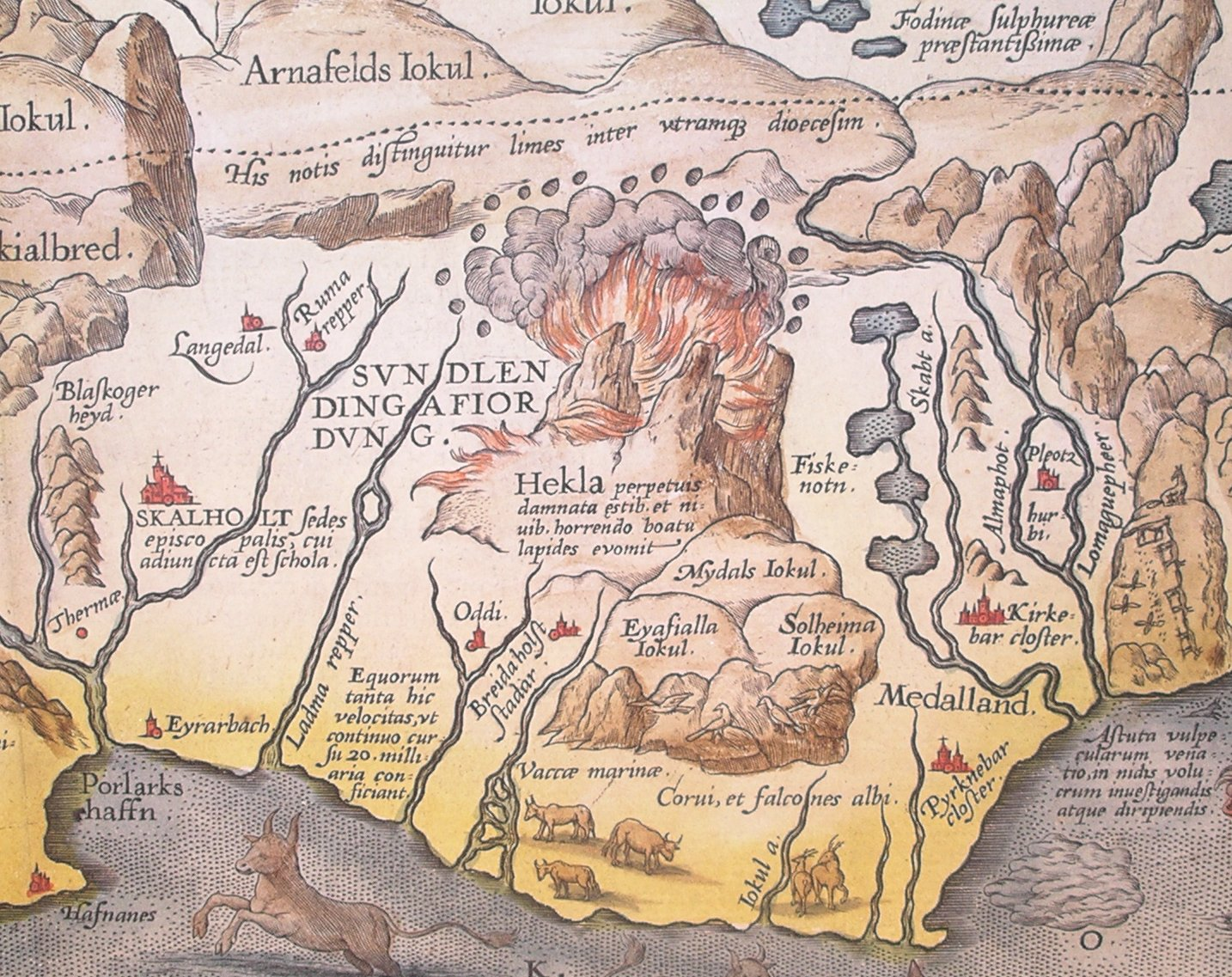 Detail of Abraham Ortelius' map of Iceland (1585) showing the Volcano Hekla in eruption. The latin text "Hekla perpetuis/damnata estib. et ni:/uib. horrendo boatu/lapides evomit" means "The Hekla, perpetually condemned to storms and snow, vomits stones under terrible noise."